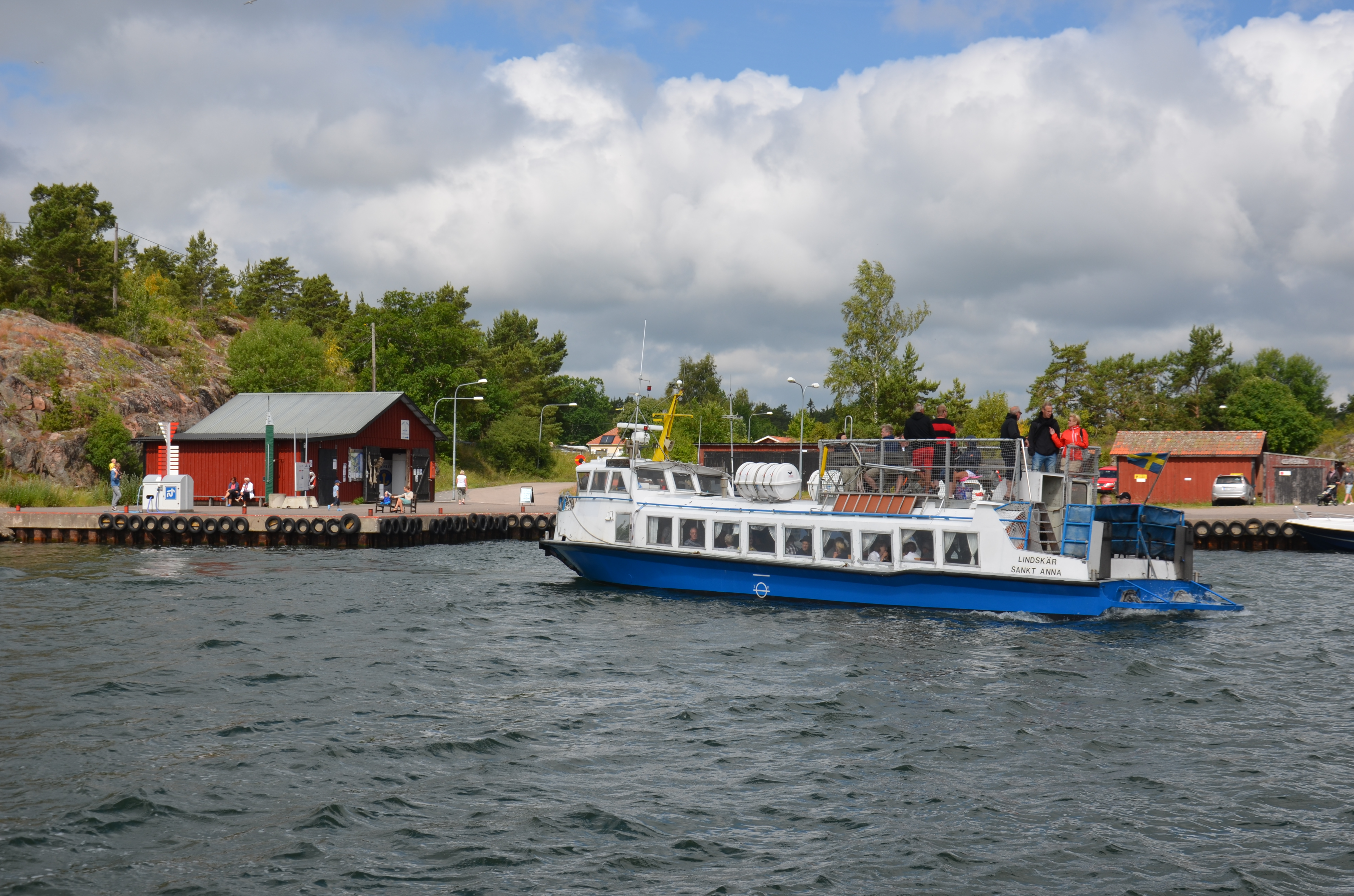 Tyrislöt harbour, Sankt Anna archipelago, Söderkping Municipality, Sweden with M/S Lindskär approaching